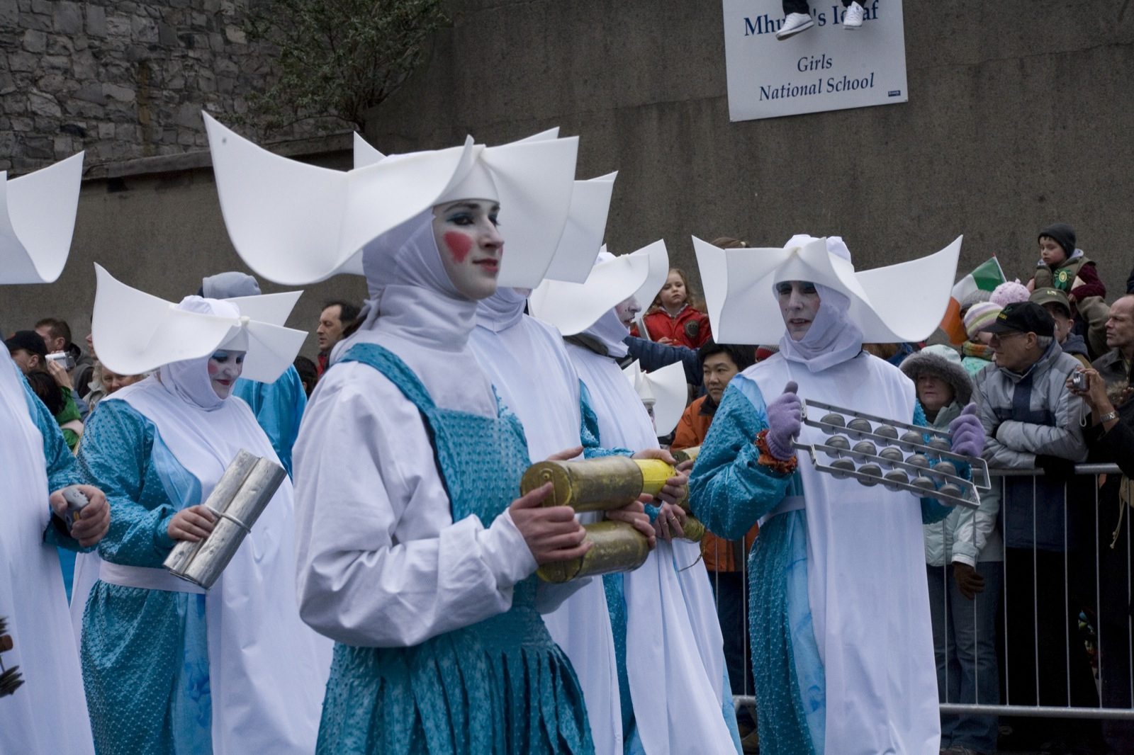 St. Patrick's day parade 2007 - Dublin